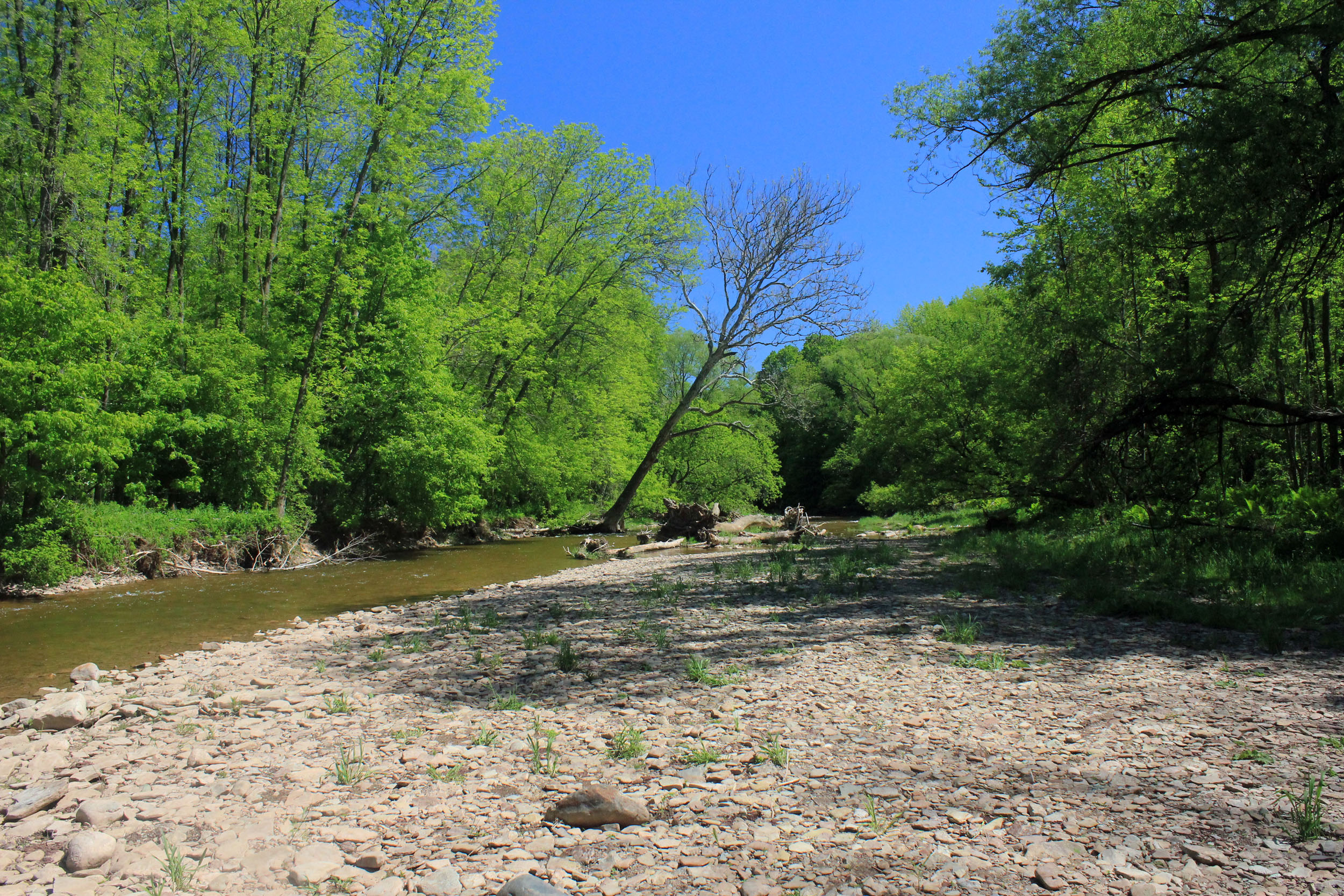 Bronte Creek Provincial Park is a fairly large park near Oakville, Ontario. Named for the 12-mile creek that flows through the park into Lake Ontario, the Park Another shoreline of Bronte Creek